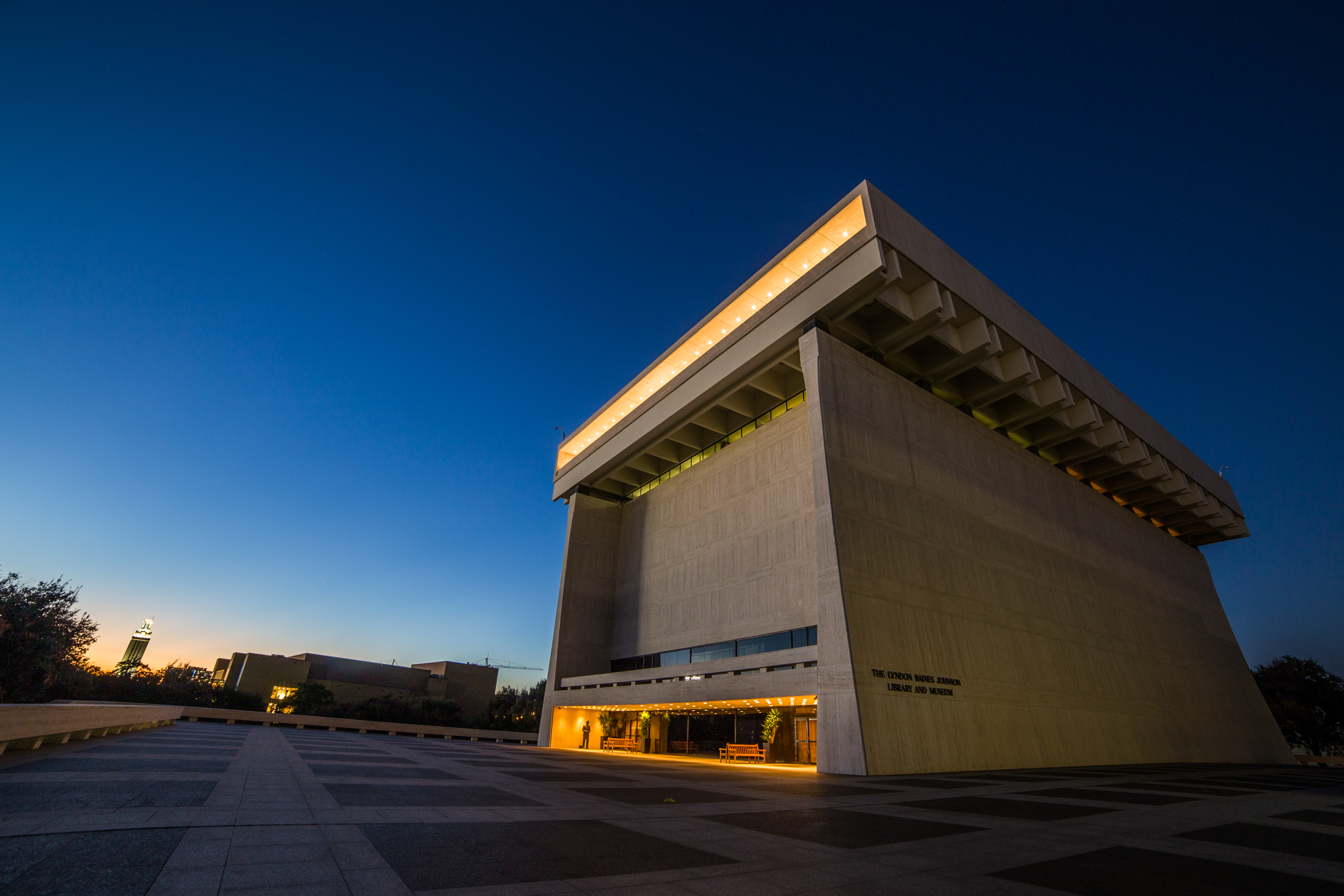 The LBJ Presidential Library at dusk, October 27, 2015.